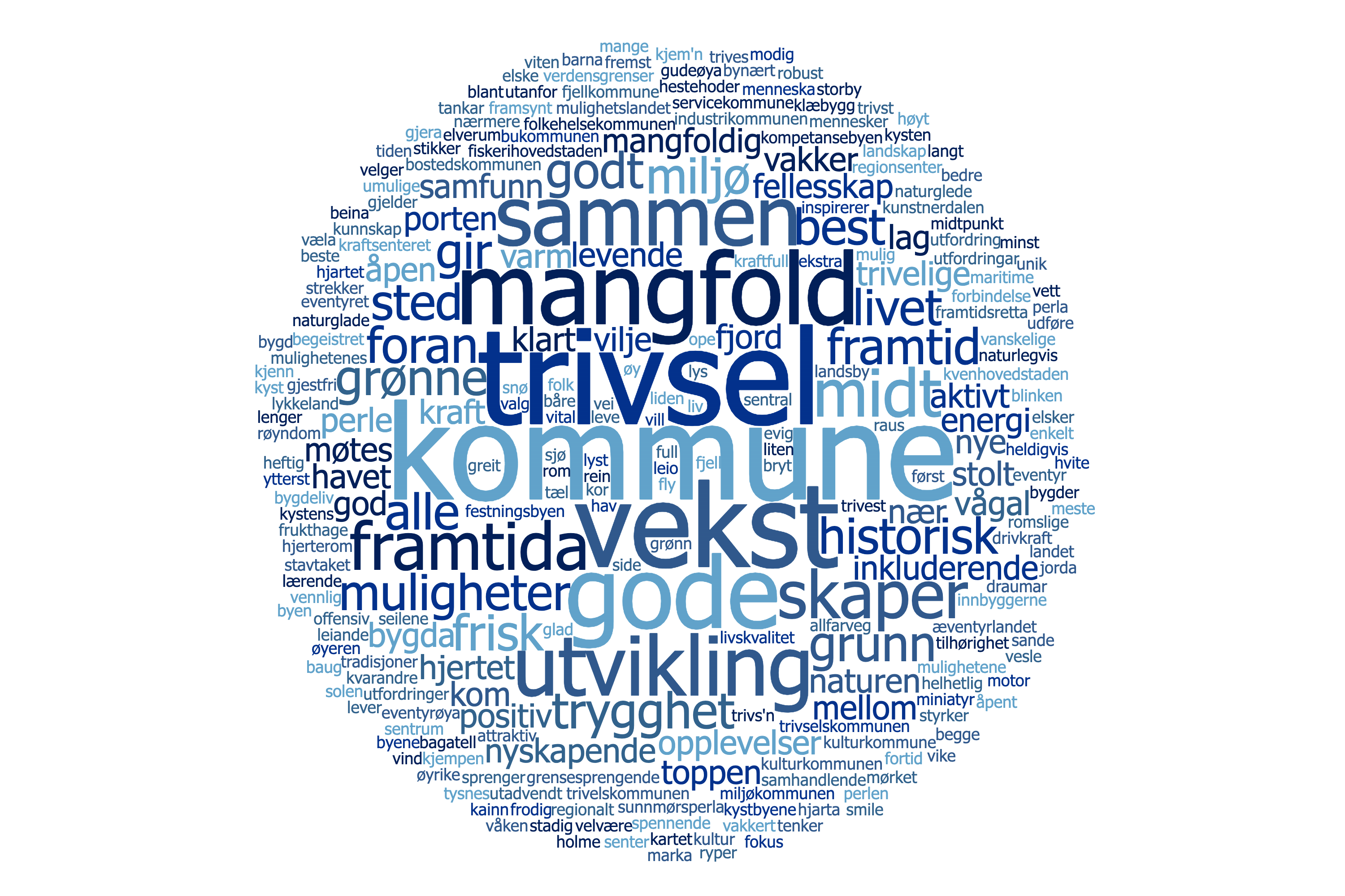 Wordcloud of words used in official Norwegian municipality slogans